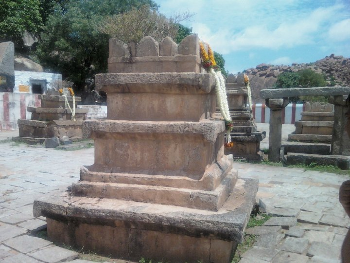 I have clicked this photo during my visit